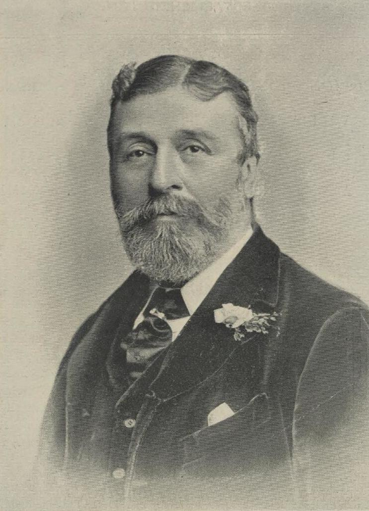 A portrait from the Welsh Portrait Collection at the National Library of Wales. Depicted person: John Jenkins, 1st Baron Glantawe – British politician